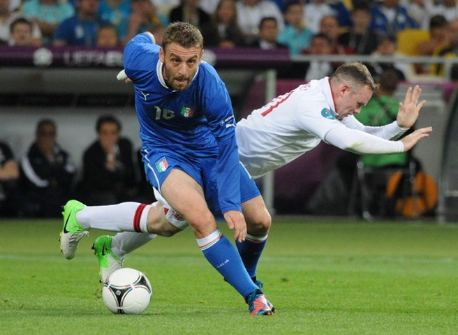 Daniele De Rossi at Euro 2012 match against England